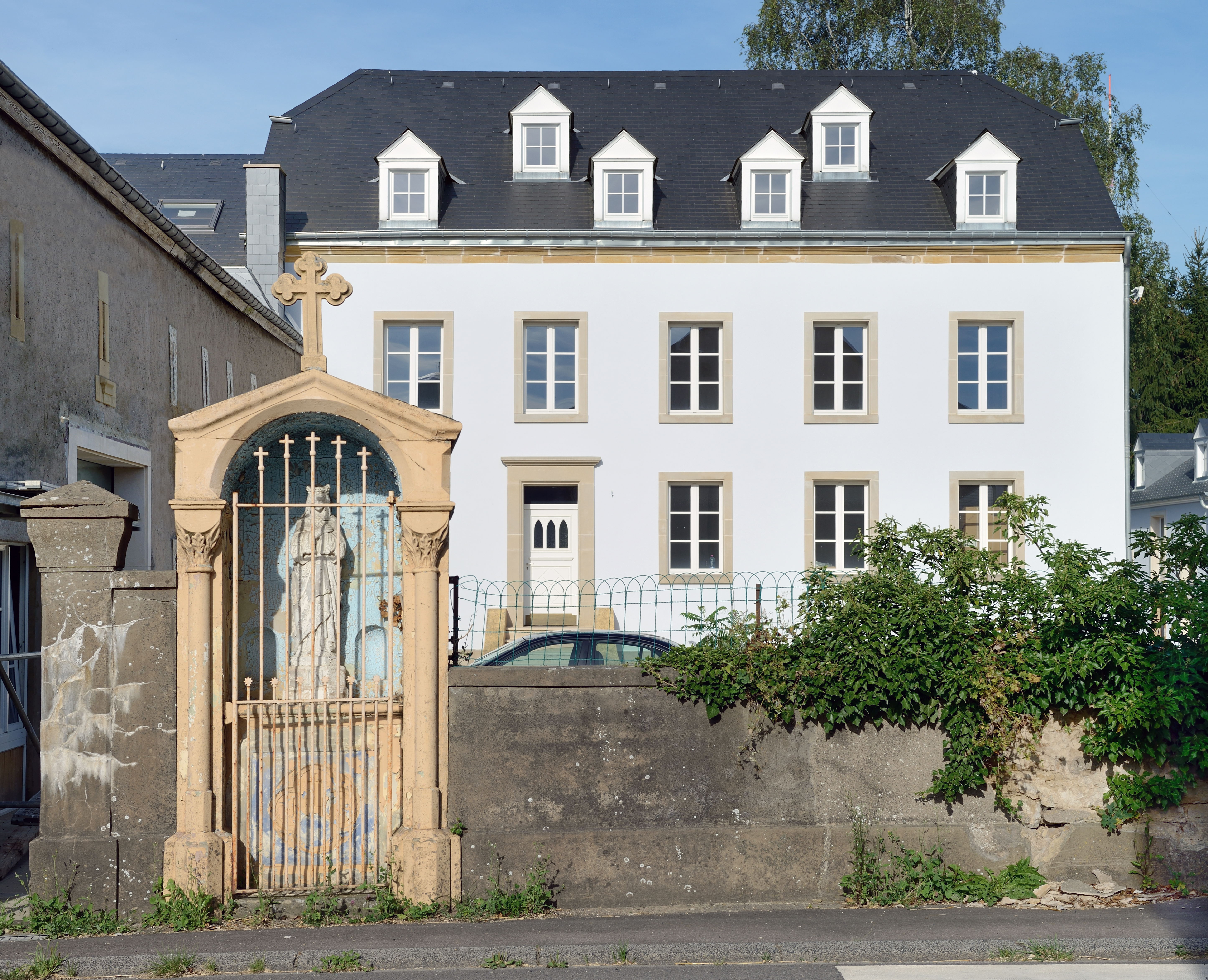 Luxembourg, Beidweiler: house with chapel A Fiesch.